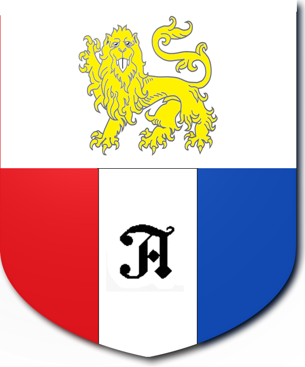 Agrinal shield